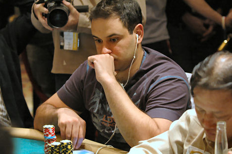 Roland de Wolfe in WPT7 2006 World Poker Tour Five Star.